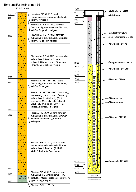 dwell